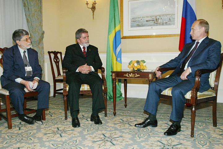 New York. President of Brazil Luiz Inácio Lula da Silva with President of Russia Vladimir Putin